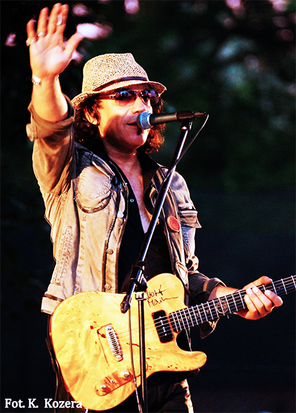 Wolf Mail in Poland